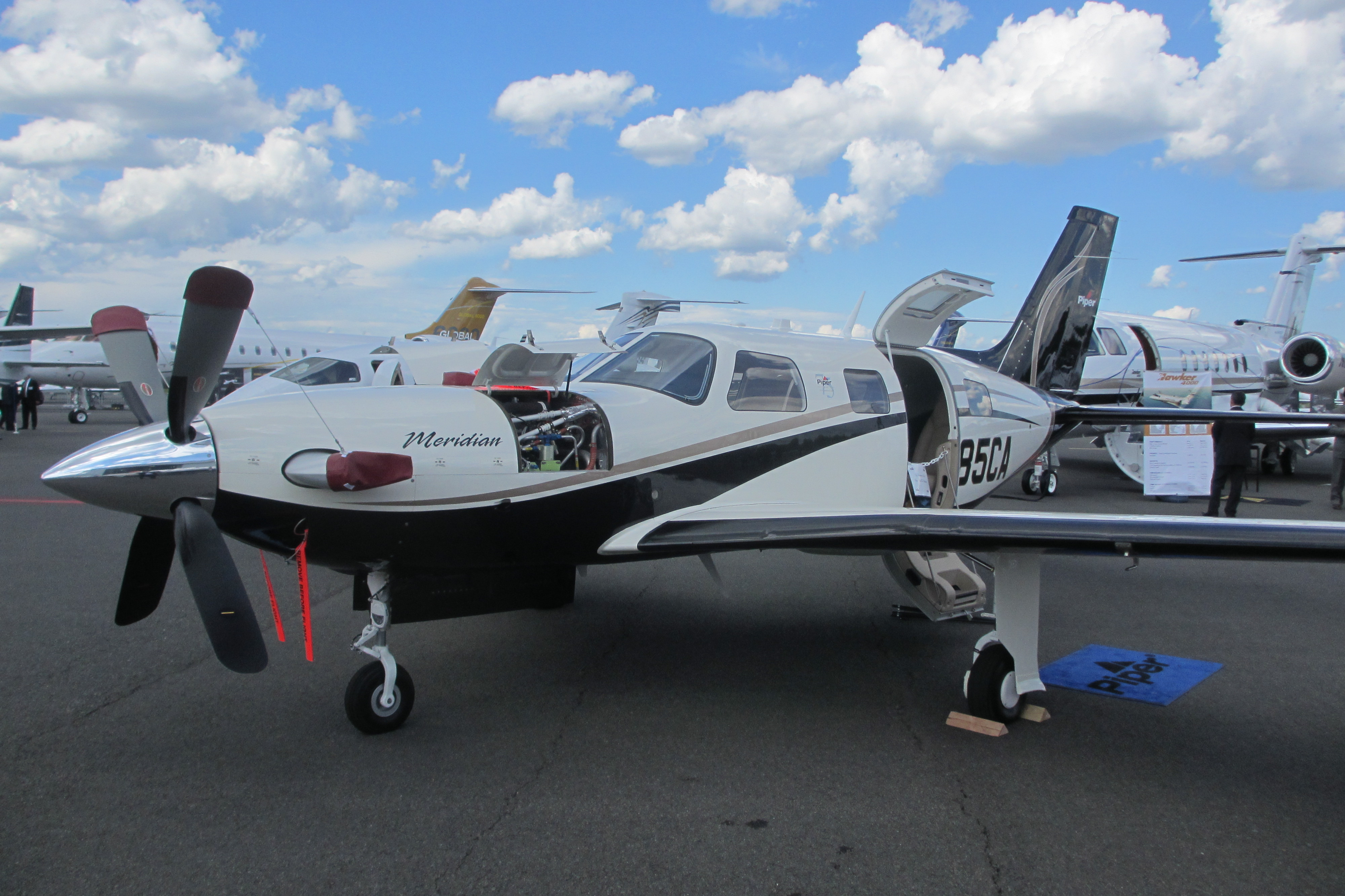 Piper Meridian exterior with engine view (Piper PA-46 Malibu Meridian)